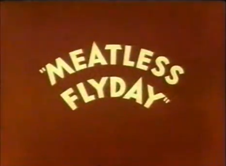 Title card for the Warner Bros. animated cartoon "Meatless Flyday."